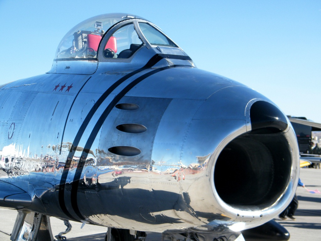 Yesterday was Veteran's Day here Stateside although today is the observed holiday - aka: day off of work :-) So I decided to head on over to Nellis Air Force Base for the annual Aviation Nation Air Show. I've been goin' to these things off-&-on since 1997 and this year proved a tad bit disappointing. Probably because of the economy there weren't as many vintage aircraft and there were no displays inside the hangars as in the past. But it is still a large, well attended show with plenty to see and I spent the better part of the day there. Boy, was I pooped!!! :-)